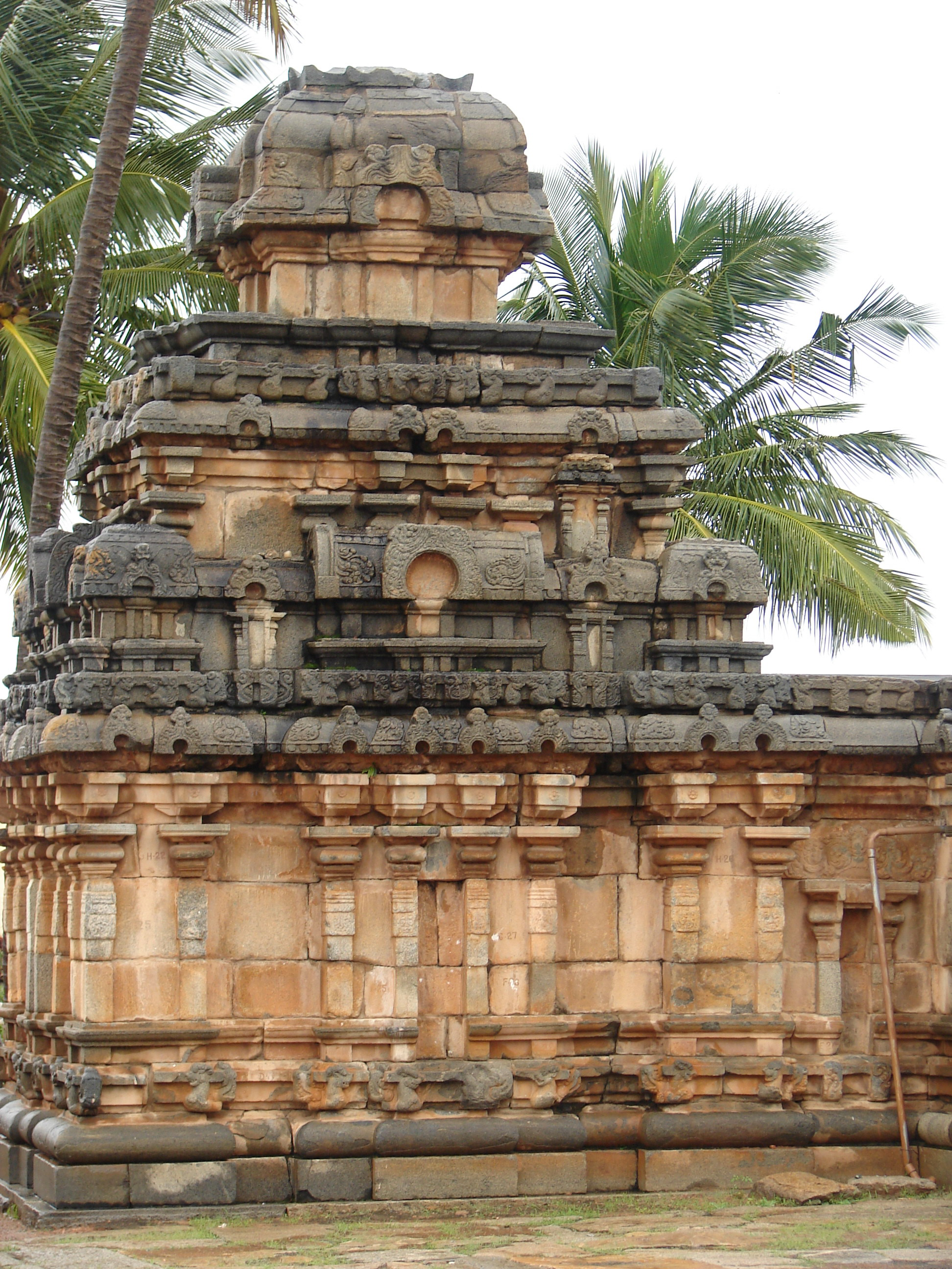 This photograph was taken by me at the Panchakuta Basadi at Kambadahalli, Mandya district, Karnataka state, India. Kambadahalli was important Jain religious center during the 9th-10th century. This monument was built around 900 A.D. during the reign of the Western Ganga dynasty and is considered a fine example of Dravidian architecture.